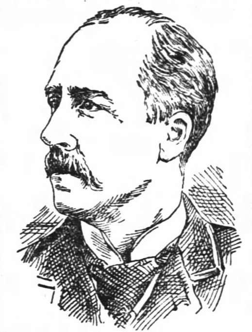 John R. Glascock (California Congressman)